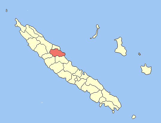 Created map myself.